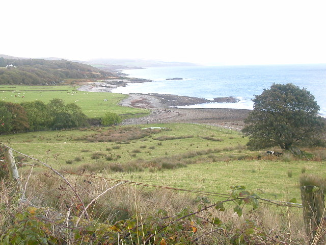 Crossaig north of Carradale on B842, Kintyre. Crossaig bay looking northeast to Skipness point.